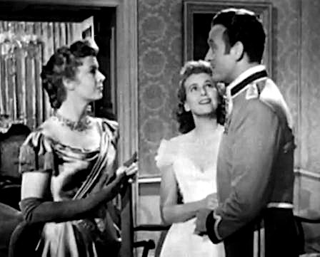 L. to R. : Jayne Meadows, Teresa Wright & David Niven in Enchantment - trailer (cropped screenshot)